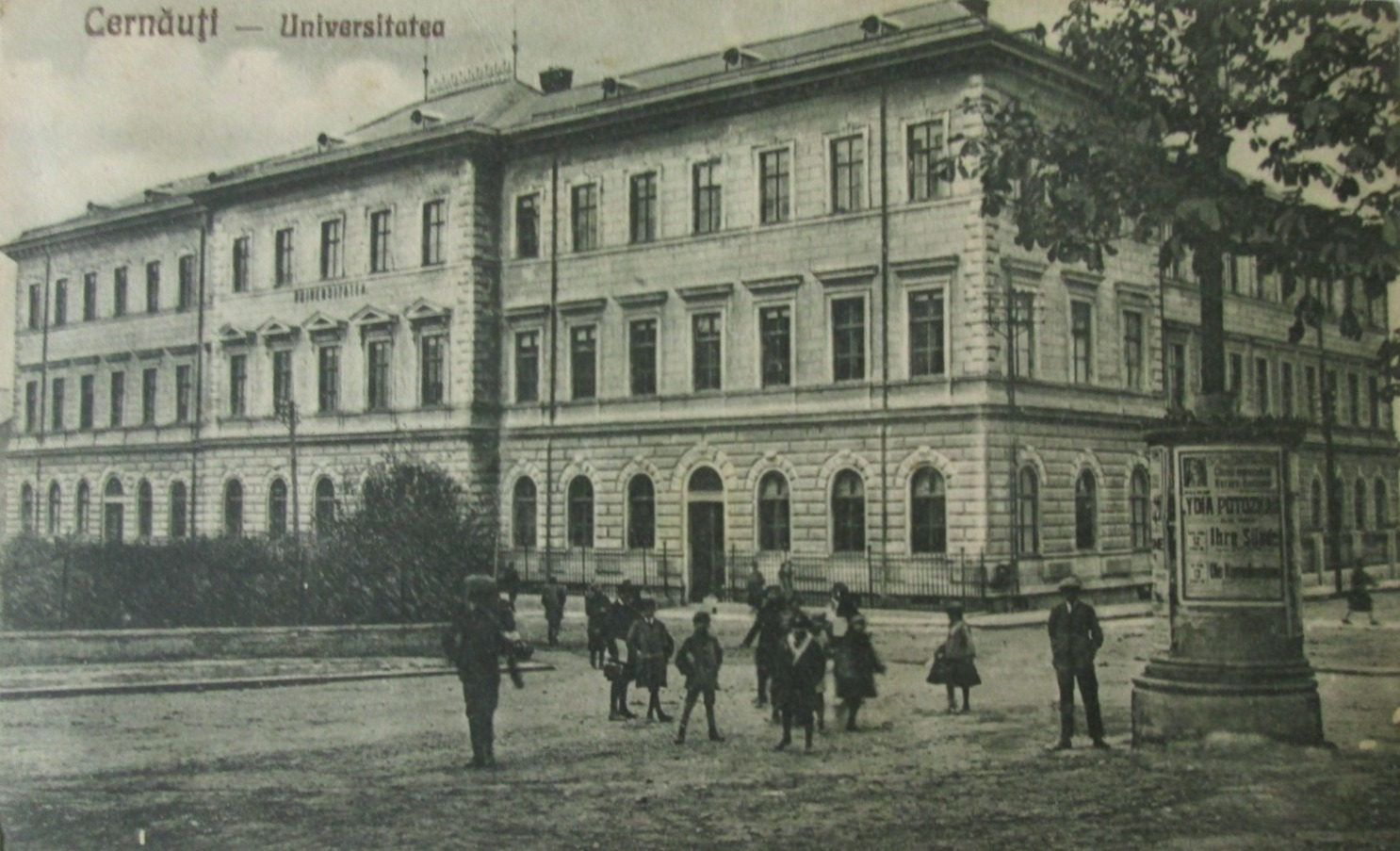 Postcard showing Czernowitz University main building in the interwar period